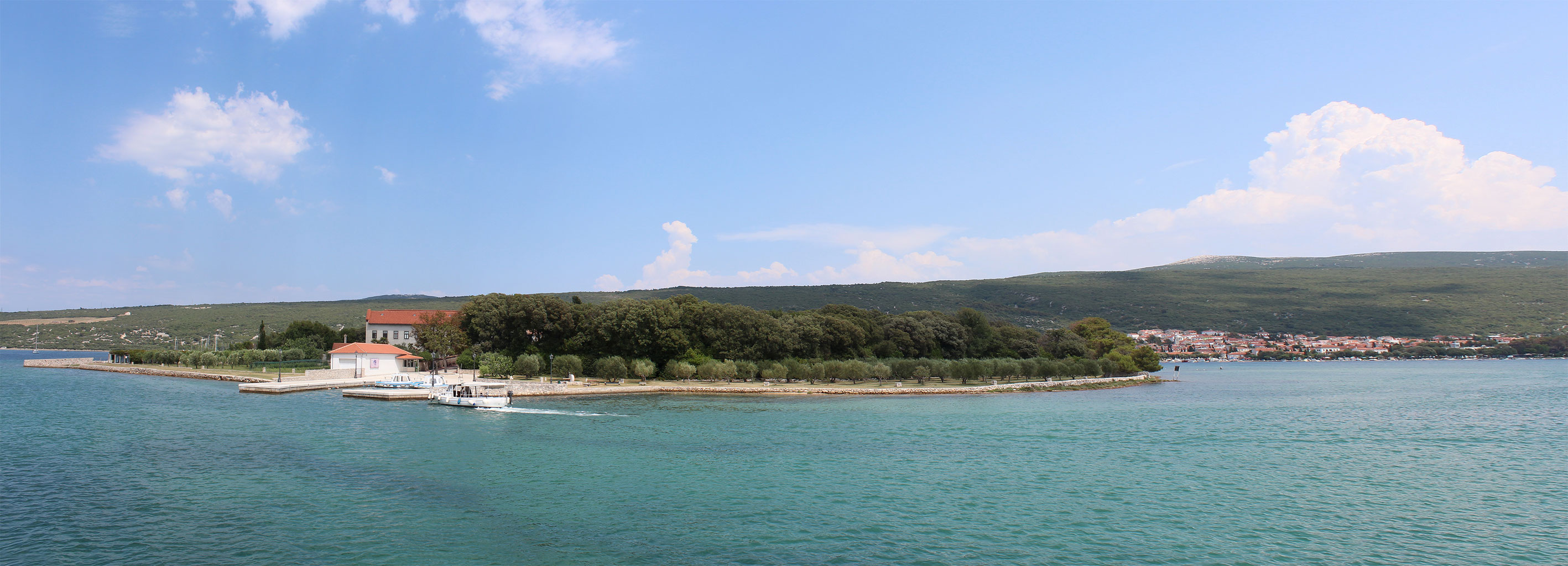 Island Košljun panorama